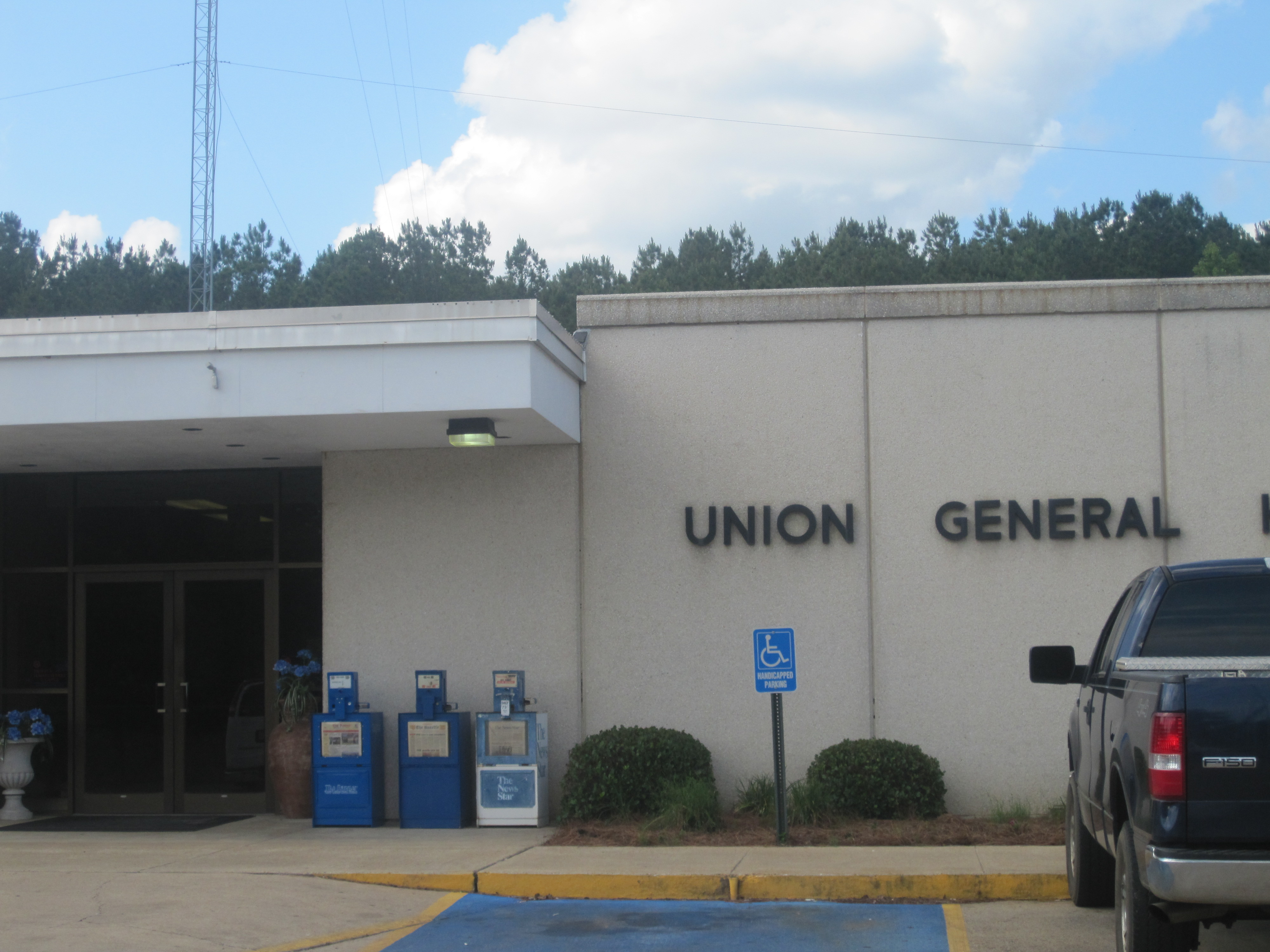 I took photo with Canon camera.